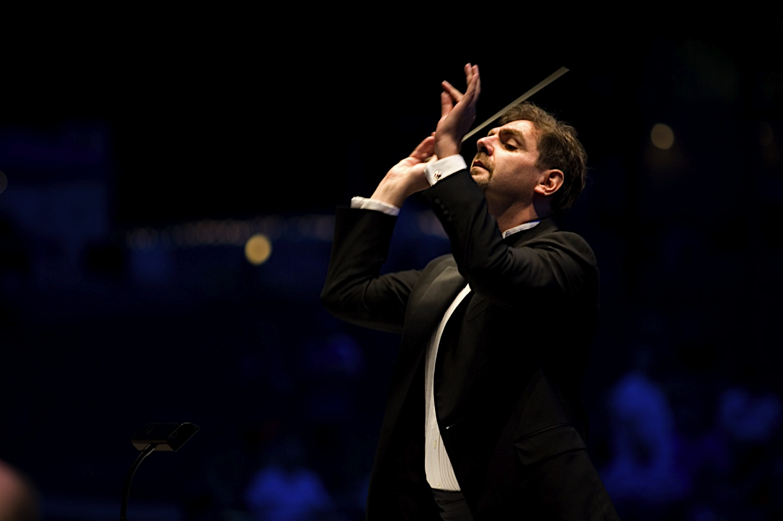 Andy Brick Conducts